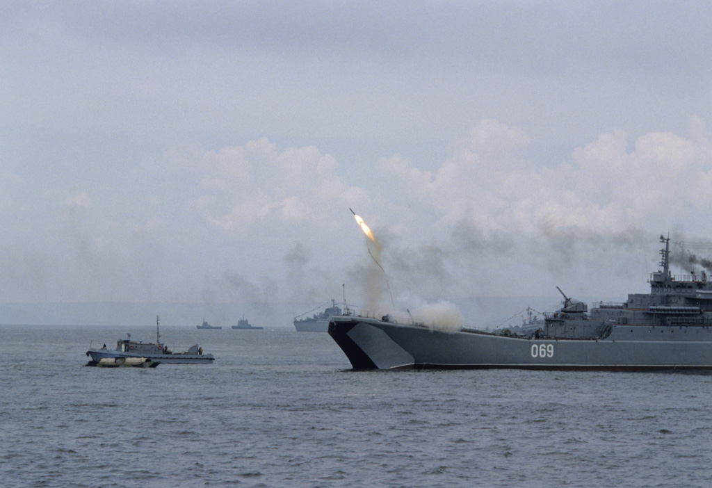 “Landing ship fires missile”. A large landing ship of the Russian Pacific Fleet fires a missile during a live fire exercise.